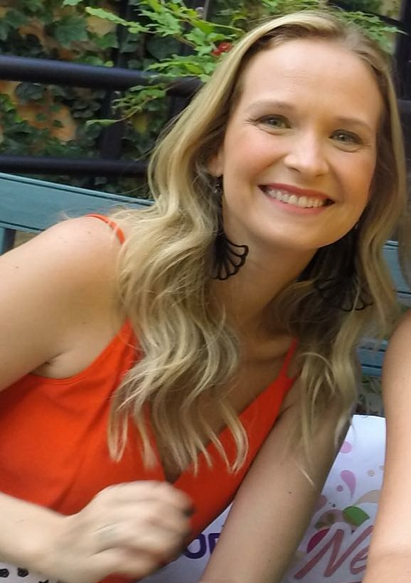 Actriz